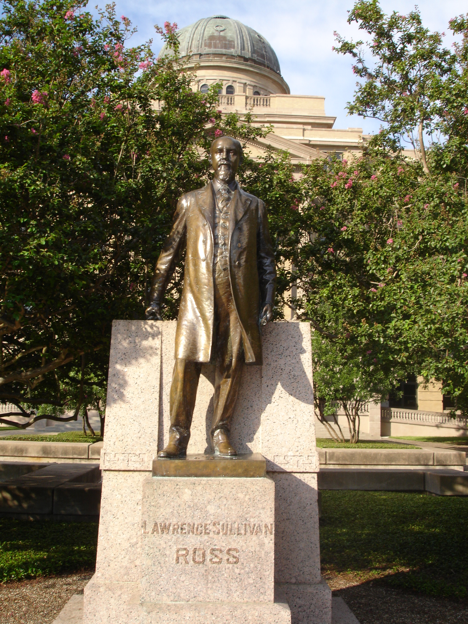 Lawrence Sullivan Ross Statue at the Academic Building Plaza in the Texas A&M University campus